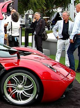 Horacio Pagani depicted second from right with white jacket and dark shirt